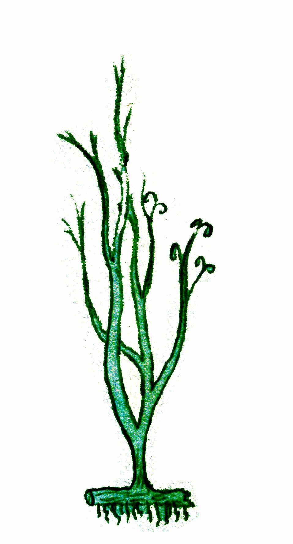 Restoration of Psilophyton, an extinct plant